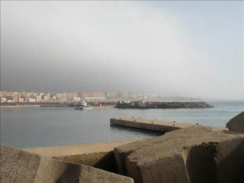 Port of Salamandre, Mostaganem Algeria